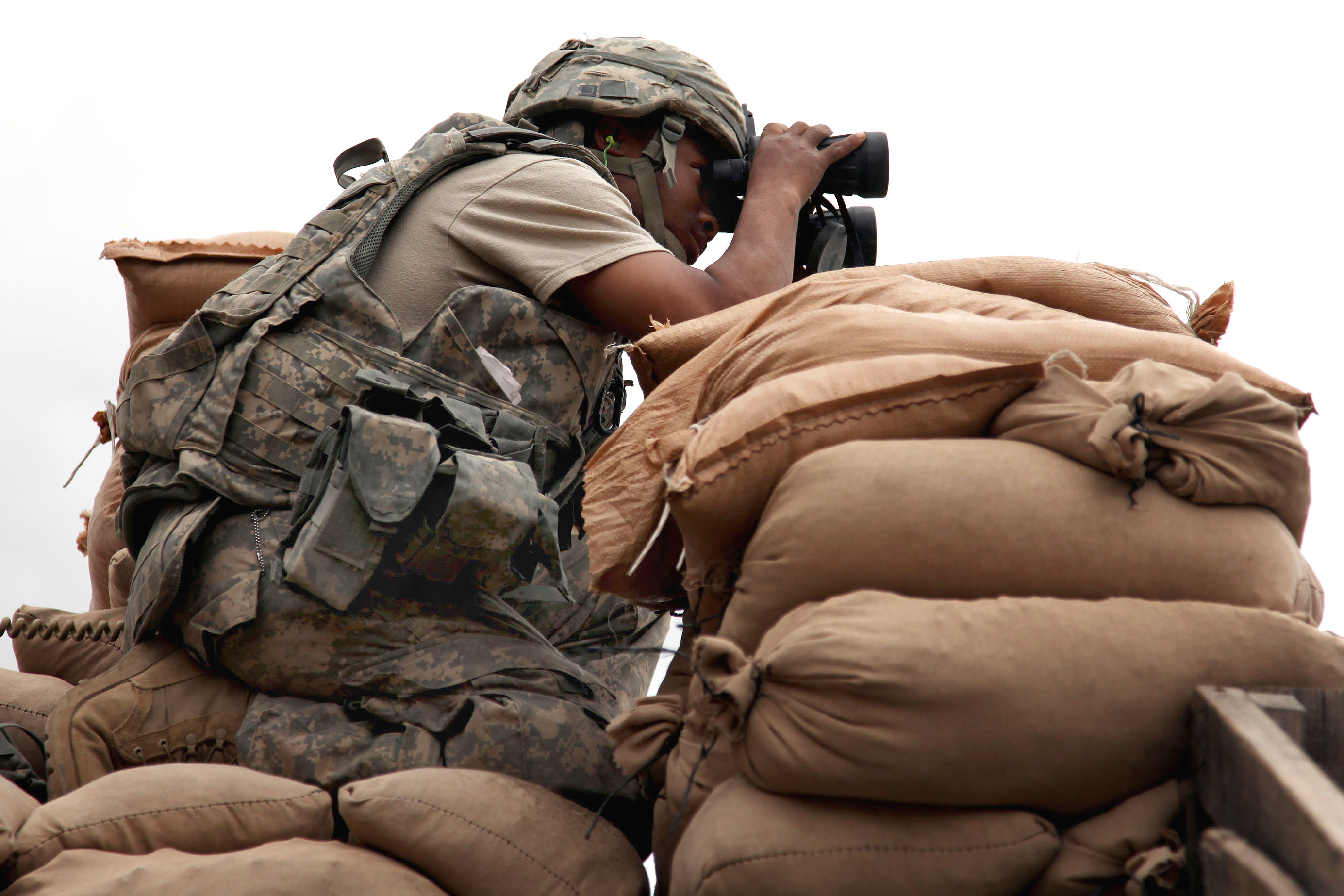 U.S. Army Pfc. Kendall Travis observes mortar rounds hitting their target on Combat Outpost Zurok, Afghanistan, July 12, 2009. Travis is assigned to the 25th Infantry Division's Headquarters Company, 3rd Battalion, 509th Infantry, 4th Brigade Combat Team. U.S. Army photo by Staff Sgt. Andrew Smith See more at